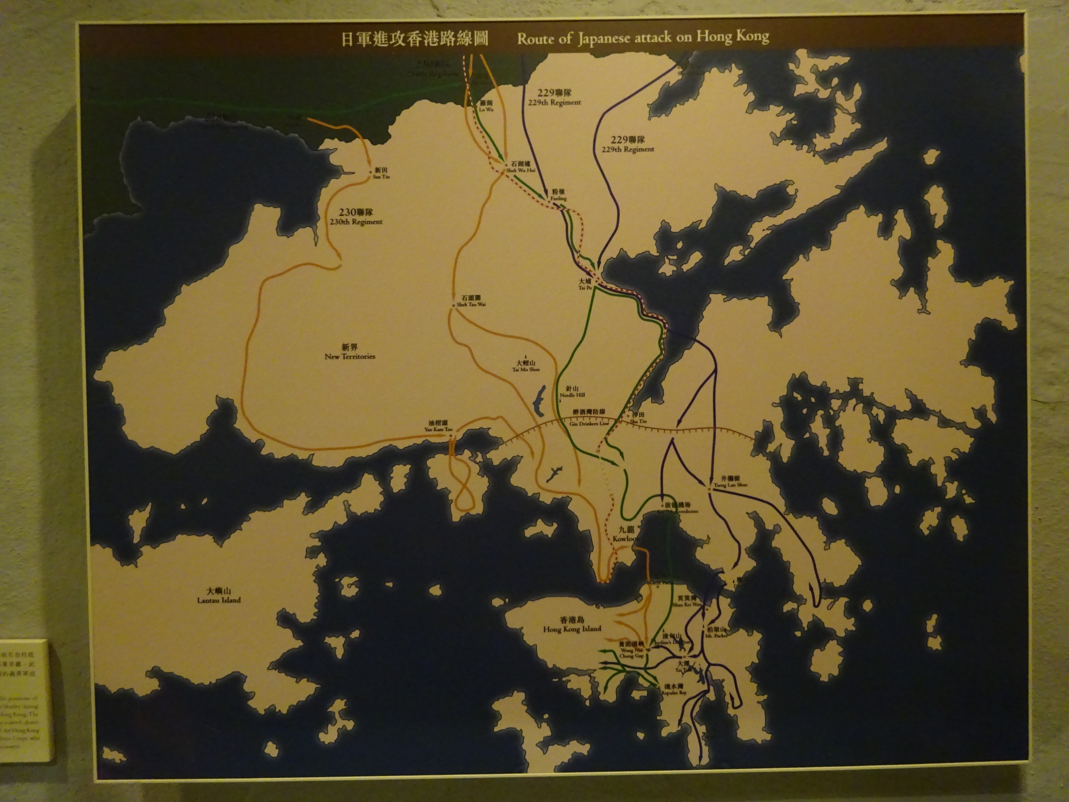 HKMH TST East 香港歷史博物館 Hong Kong Museum of History map route of Japan attack